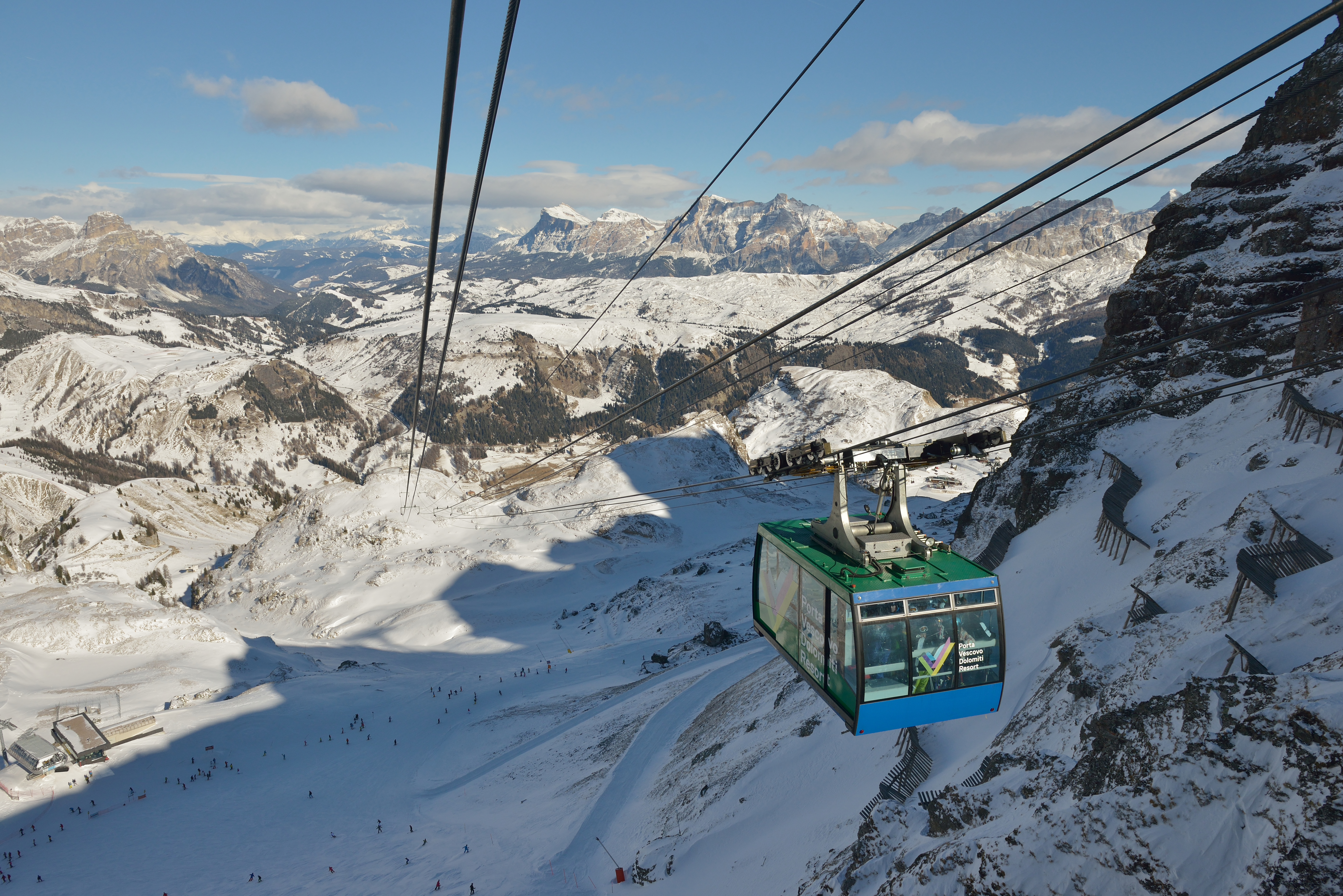 Cablecar type Funifor Arabba Porta Vescovo in Italy